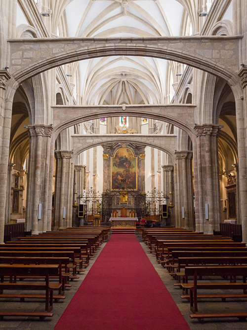 Interior de la iglesia de Santa María la Mayor